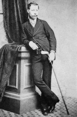 A circa 1875-77 photograph of golfer David Strath